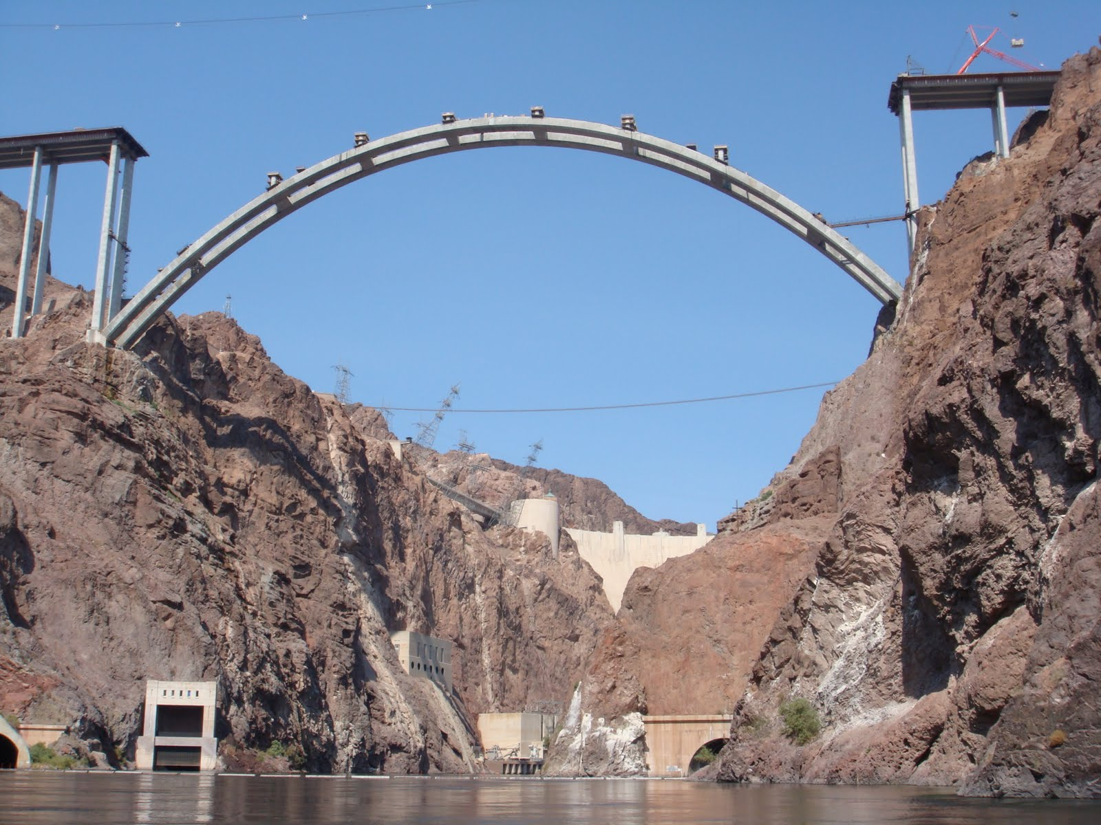 The Hoover Dam bypass bridge, completed arch, taken from a boat on the Colorado River.